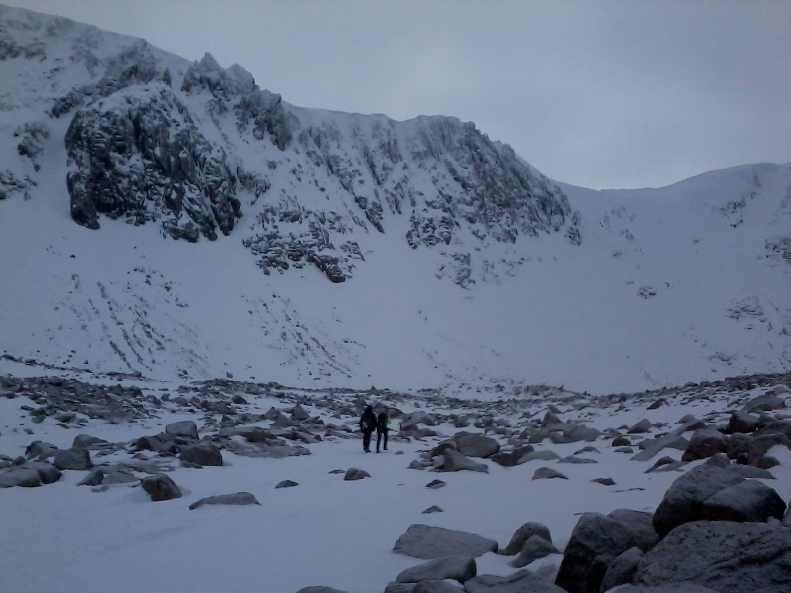 Coire an t-Sneachda in winter, oddly enough.